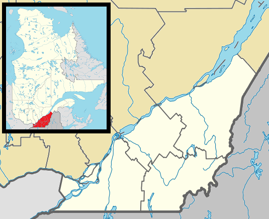 Map of southern Québec Province within Canada, for use in location map templates.